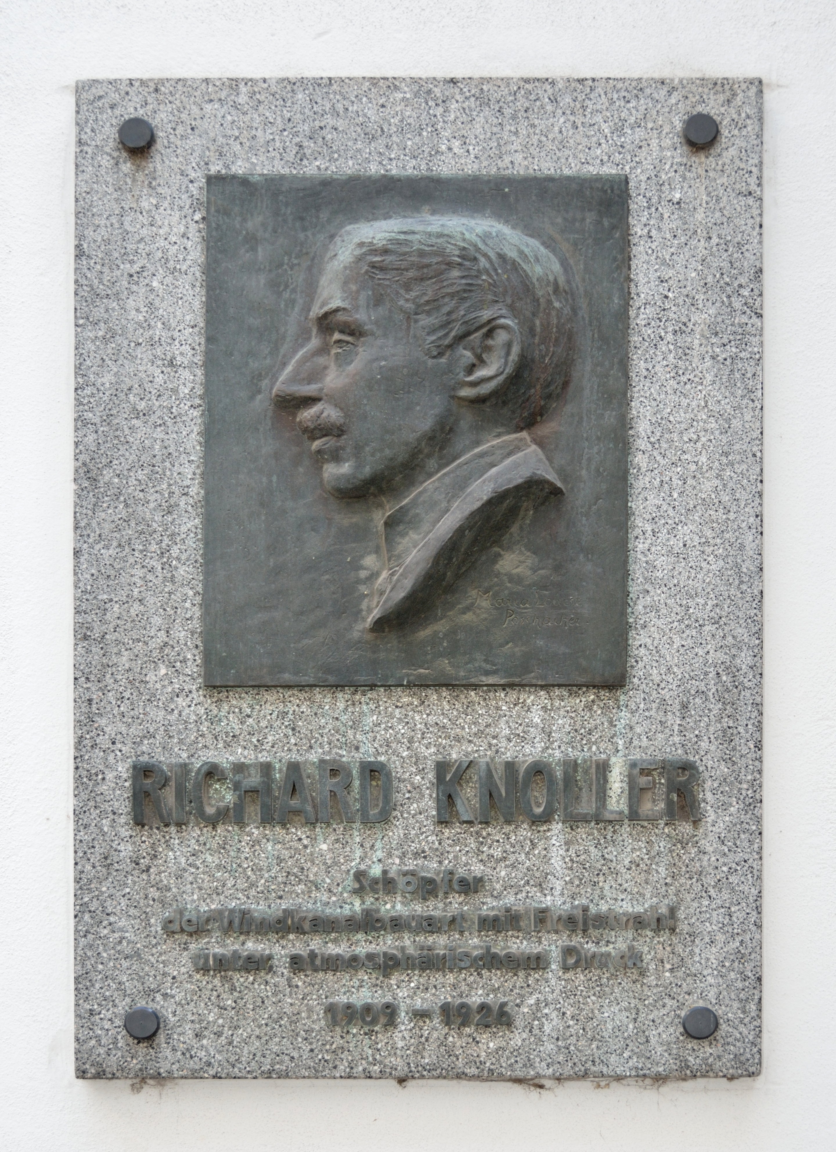 Memorial plaque for airplane technician Richard Knoller (1869-1926) at a inner court of Vienna University of Technology, Karlsplatz, Vienna.